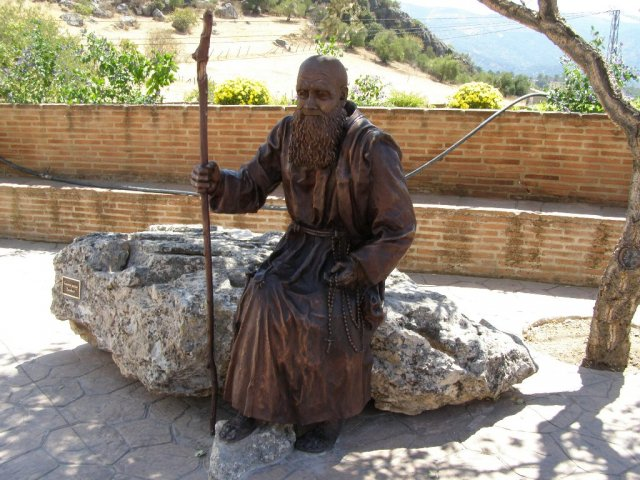 Statue of Blessed Leopold of Alpandeire. Statue made by Miguel Moreno Romera. Inaugurated on february 9 of 1999. Alpandeire (Málaga), Spain